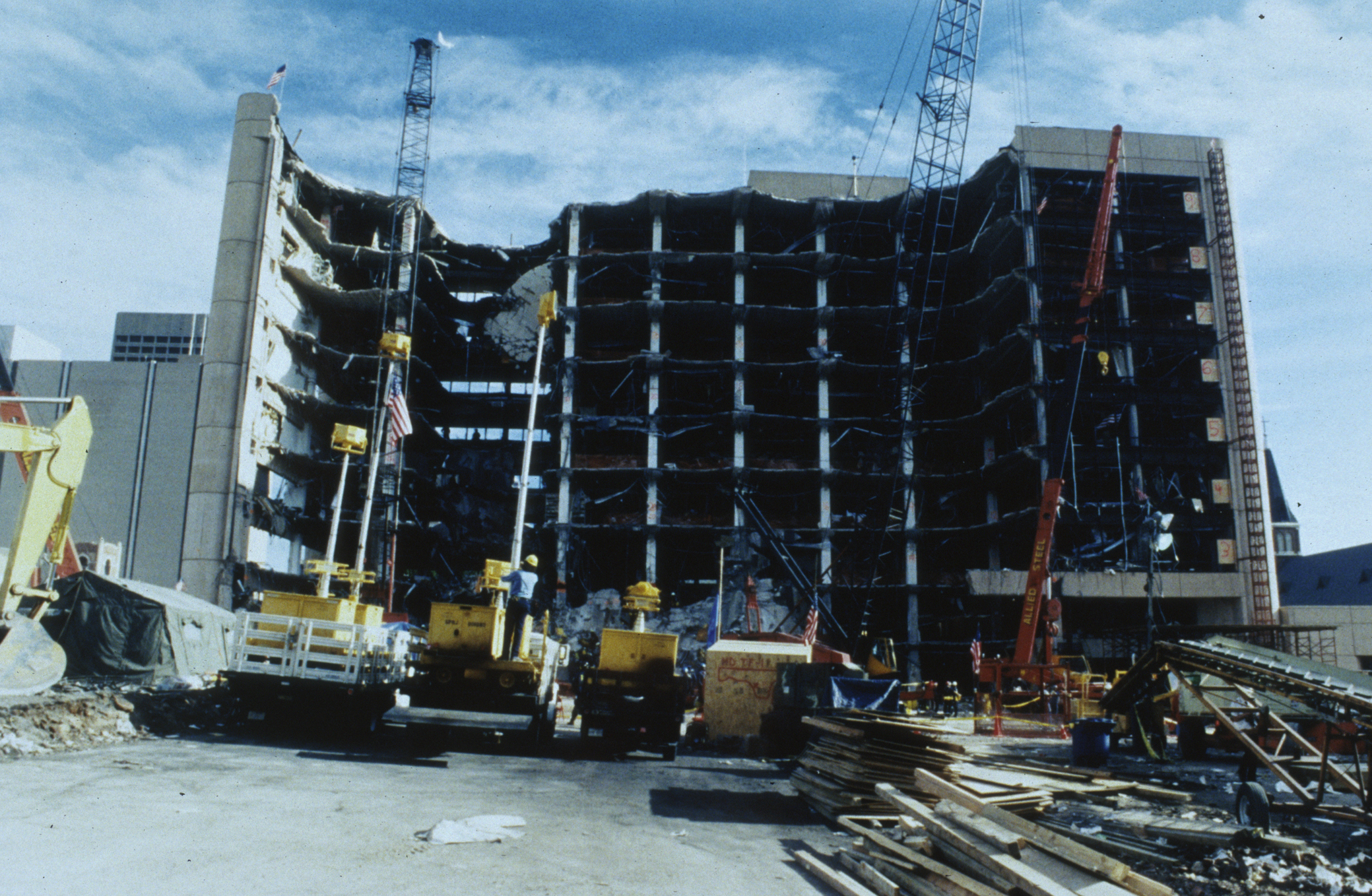 Oklahoma City, OK, April 26, 1995 -- A scene of the devastated Murrah Building following the Oklahoma City bombing. FEMA News Photo Photograph appears to be reversed in direction.